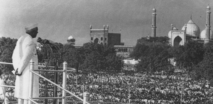 PM Jawaharlal Nehru addresses the nation from Red Fort on Independence Day, 15 August 1947.